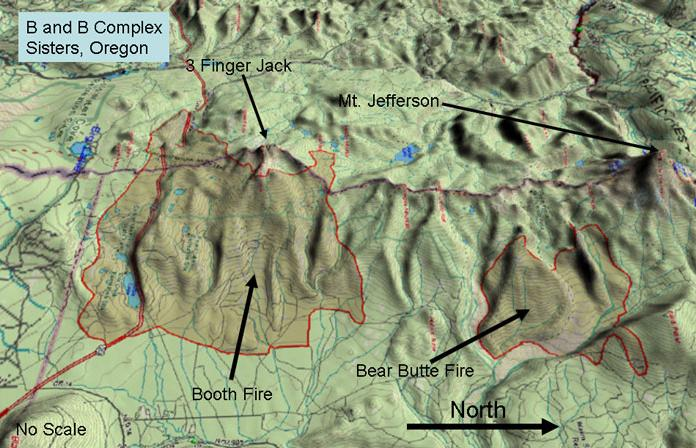 Map of the B&B Complex Fires in the Cascade Mountains of Oregon, as of 31 August 2003